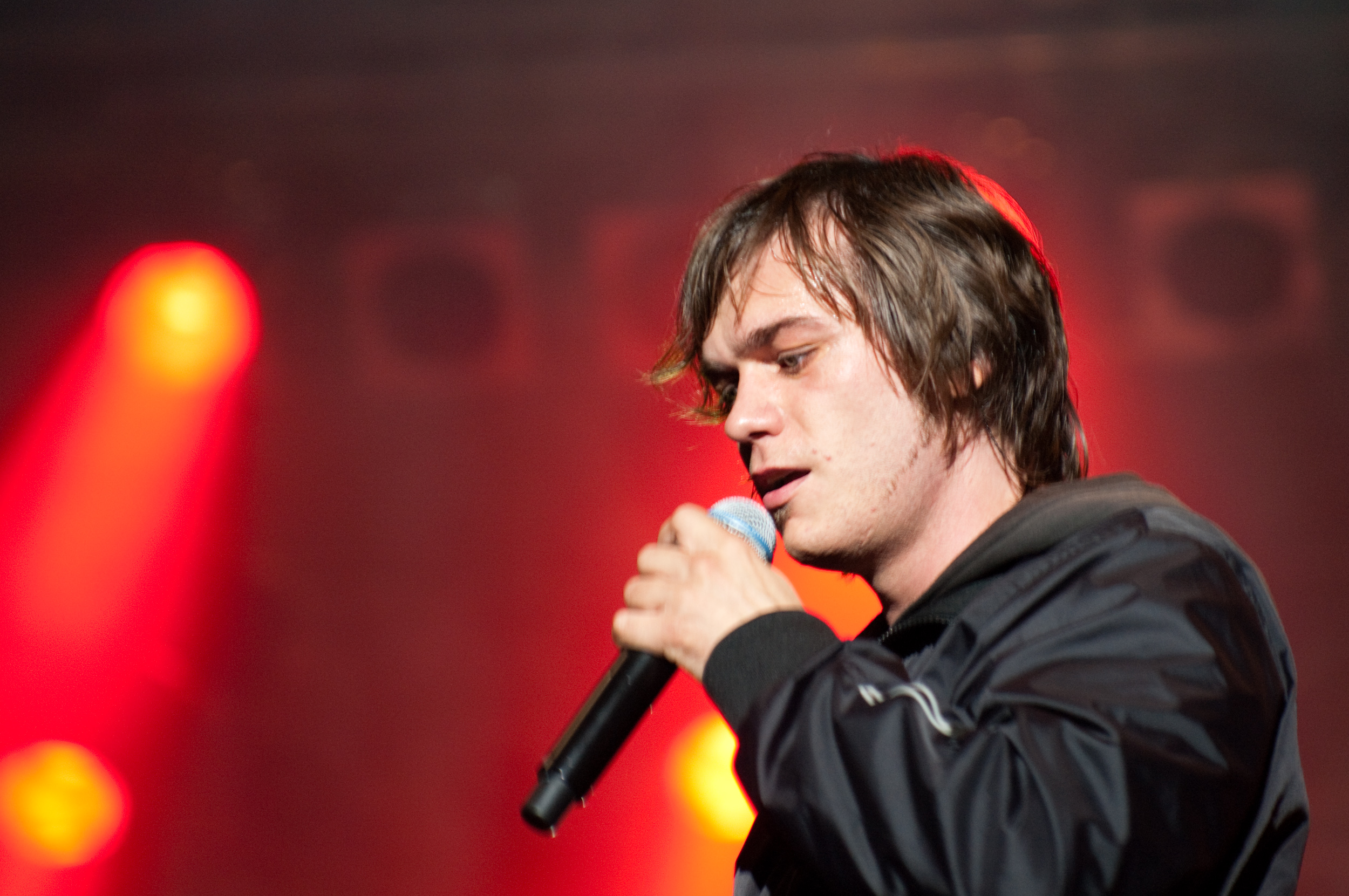 Thomas Godoj in Pasewalk